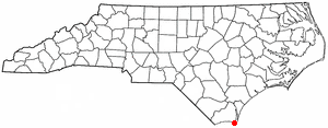 Category:North Carolina Dot Maps